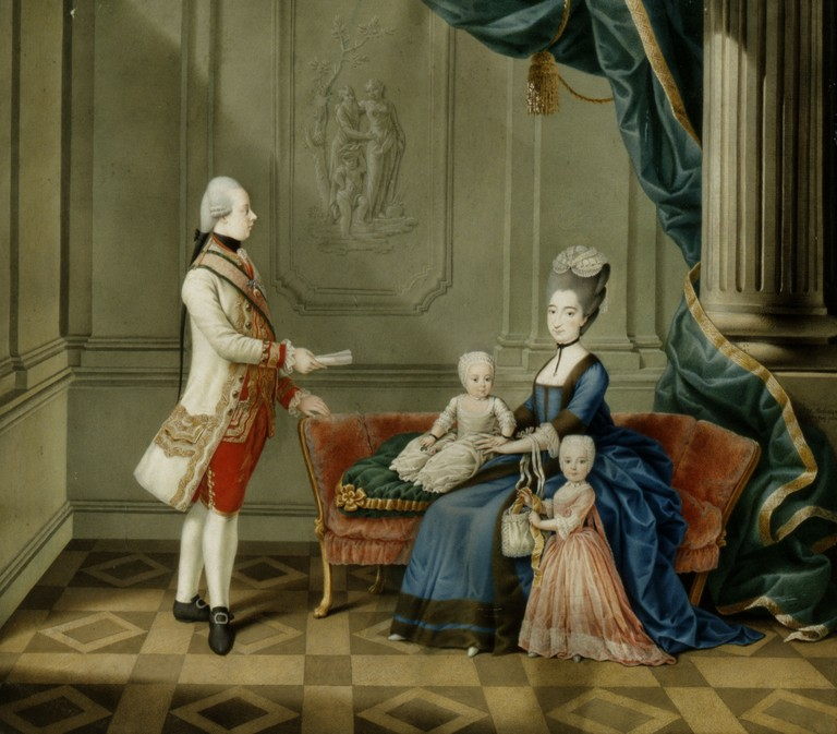 Archduke Ferdinand of Austria with his wife Maria Beatrice d'Este holding Archduchess Maria Leopoldine of Austria-Este (Future Electress of Bavaria) with Archduchess Maria Theresa of Austria-Este, (Future Queen of Sardinia) wearing a pink dress.